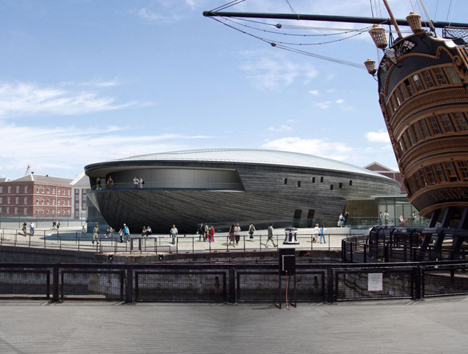 Artist's impression of what the new Mary Rose Museum will look like when finished.